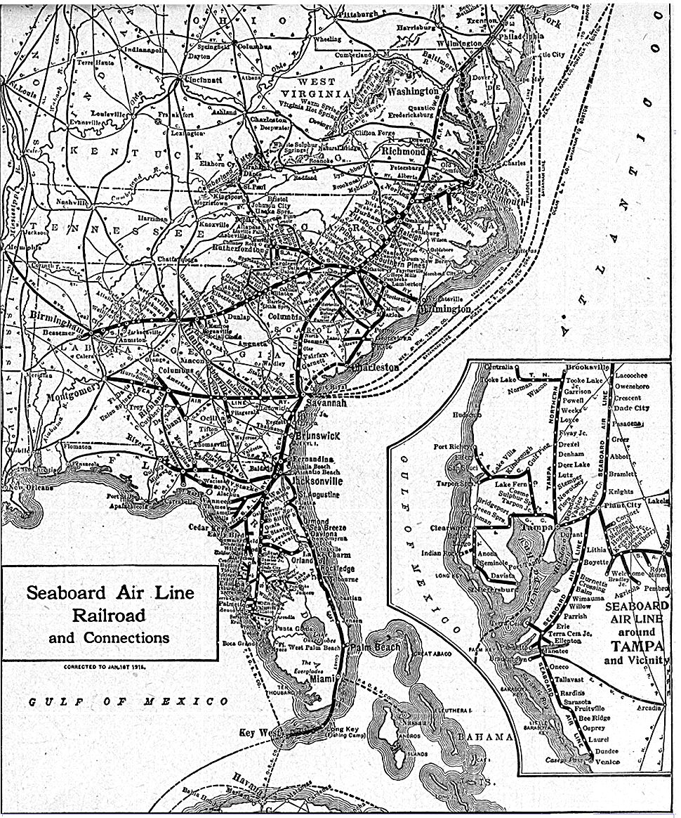 1916 map of the Seaboard Air Line Railroad system, reprinted in the 1922 New World Atlas and Gazetteer